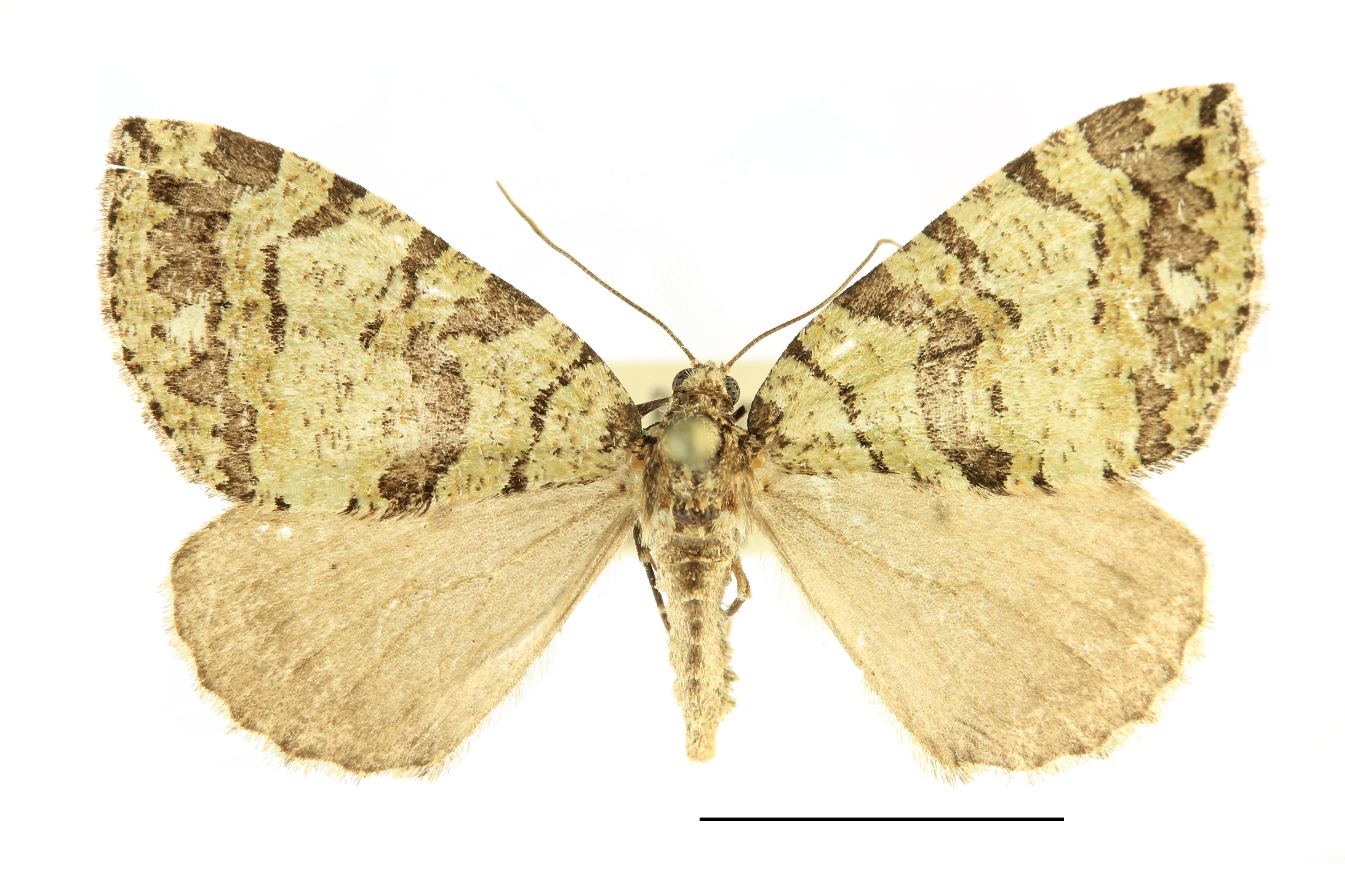 Hydriomena furcata, insect collections SLU, Uppsala